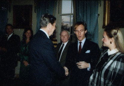 President Ronald Reagan, Jack Kemp, George Bush, Dave Fischer, and Roger Stone, (Not in all Photos) (2A-33A) Reception for "Friends of Human Events", including conservative leaders and members of Congress, receiving line